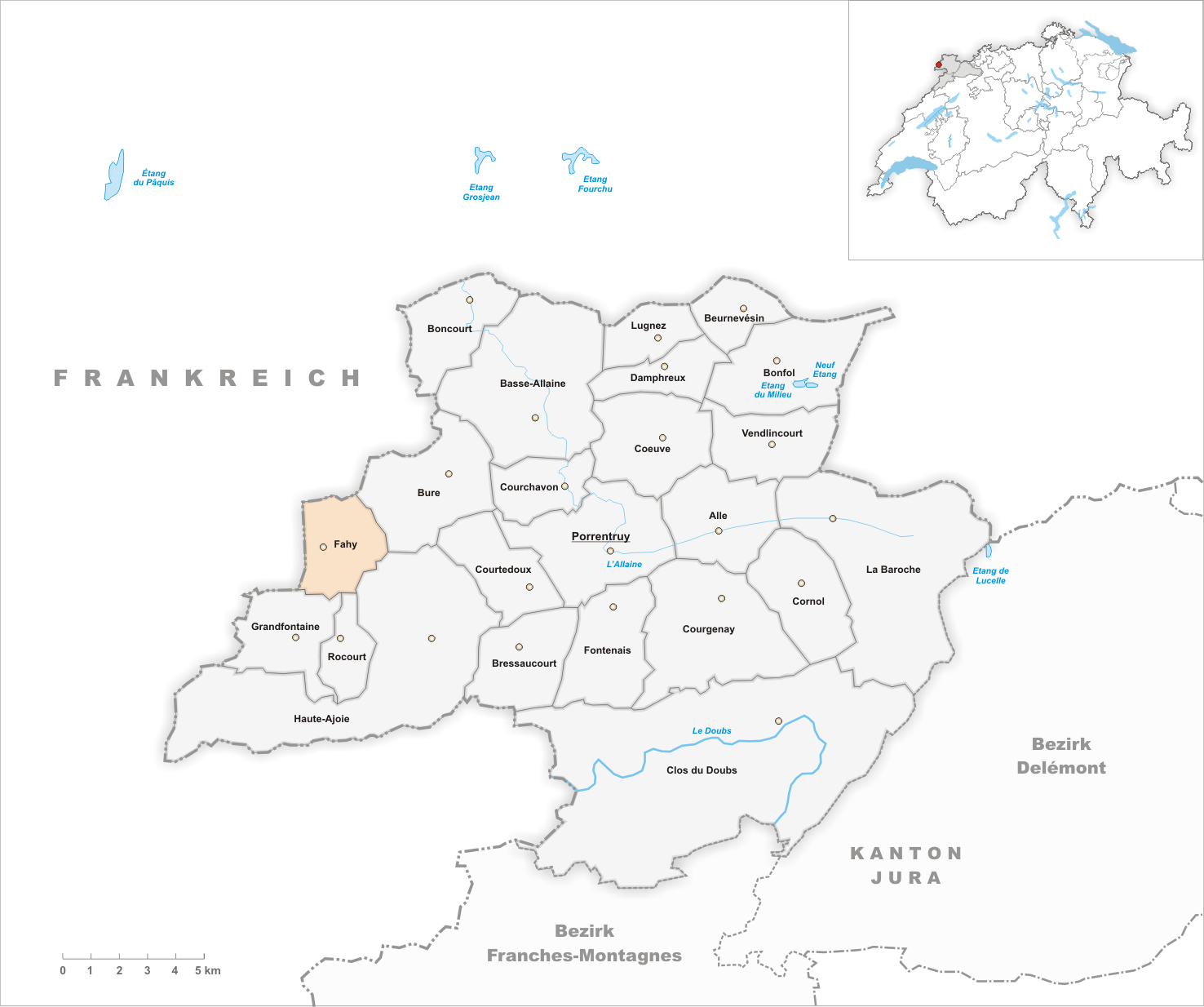 Municipality Fahy